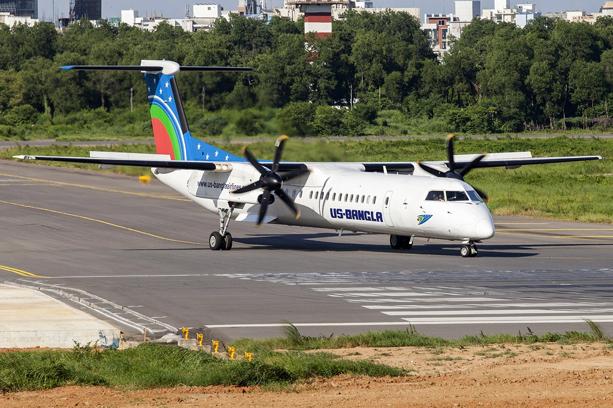 Aircraft Spotting In BANGLADESH By Murad Hashan